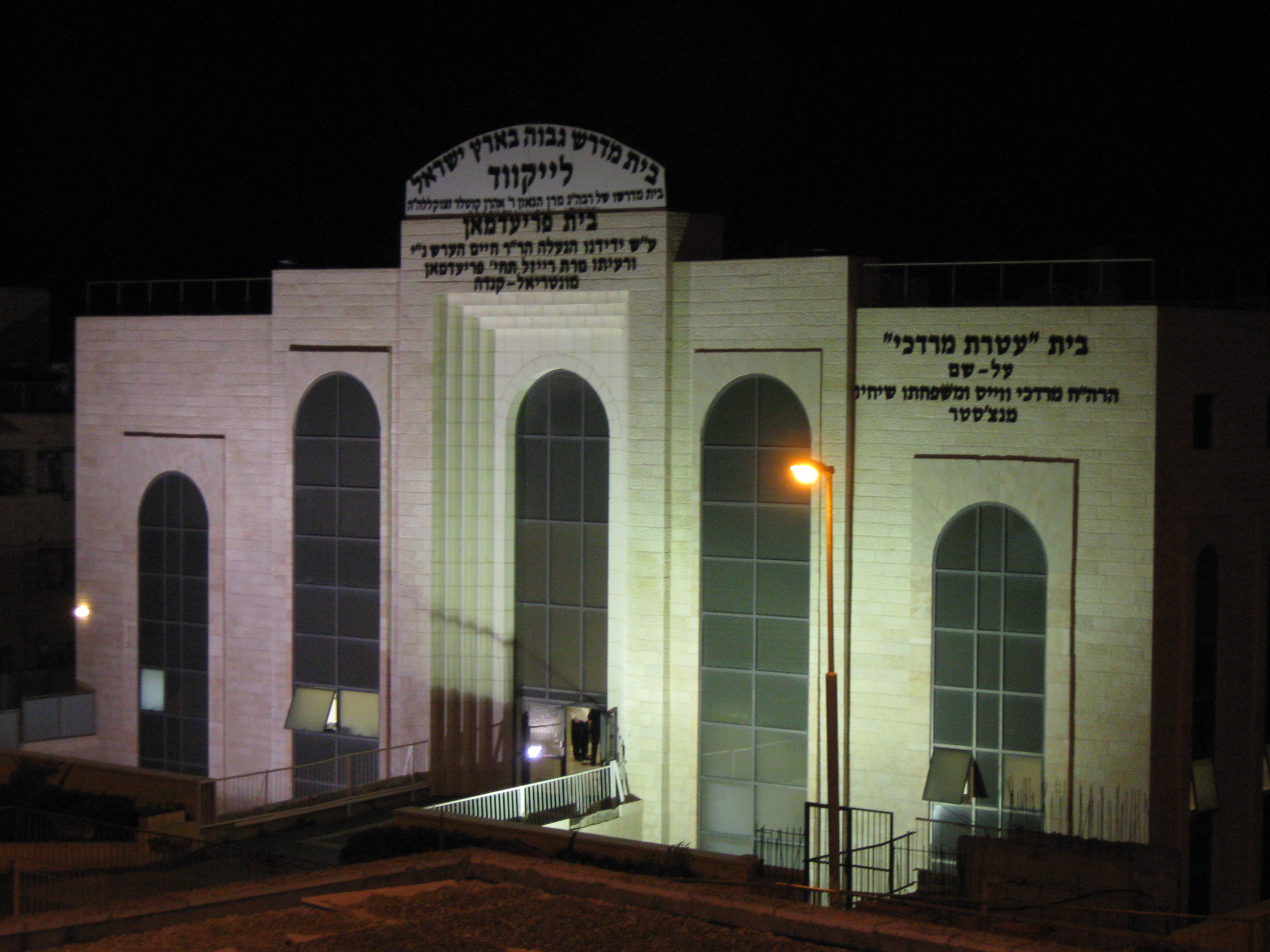 Nighttime facade of Lakewood East, a yeshiva in Ramot Daled, Jerusalem, Israel